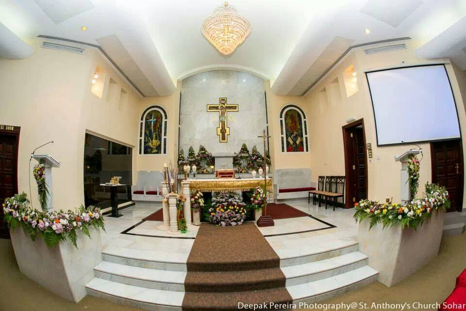 Catholic church in Oman